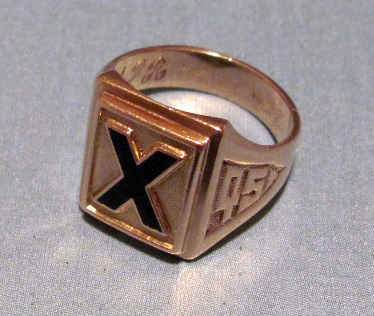 Class ring of St Francis Xavier University graduating year of 1945. The ring is manufactured by Birks and is in 10k Gold.